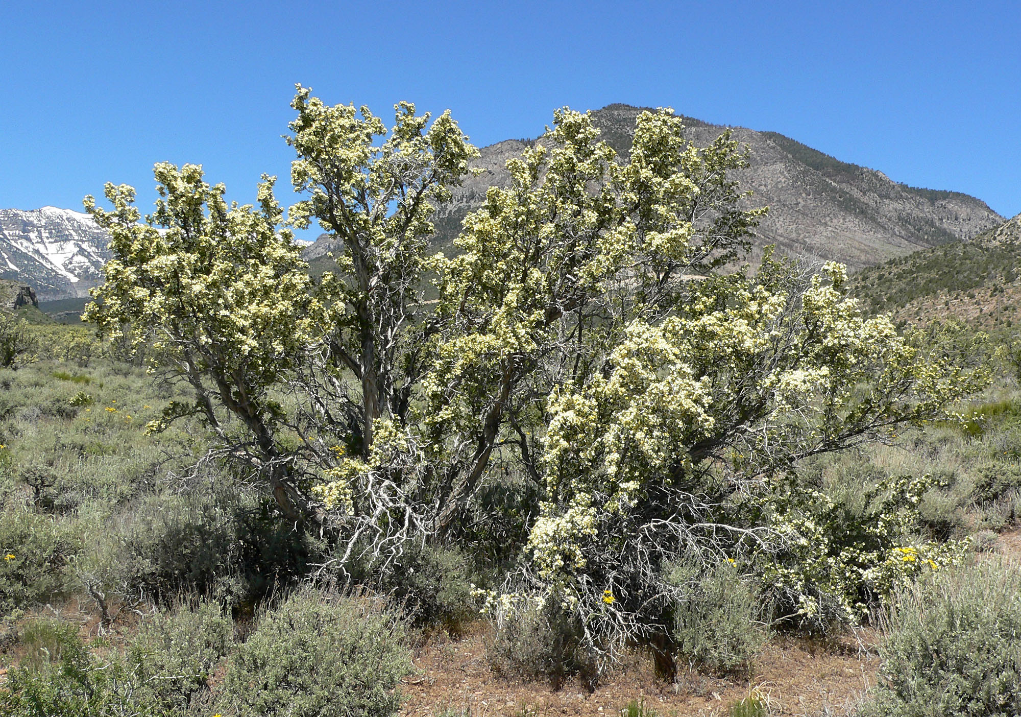 Purshia stansburiana in Kyle Canyon, Spring Mountains, west of Las Vegas, Nevada